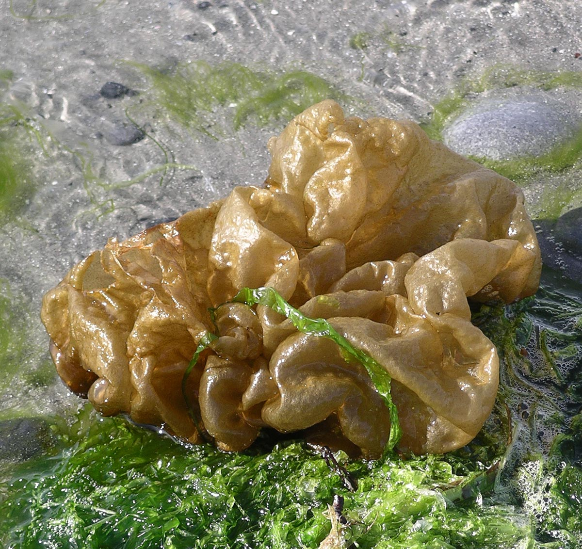 Leathesia difformis = Leathesia marina on beach in County Clare